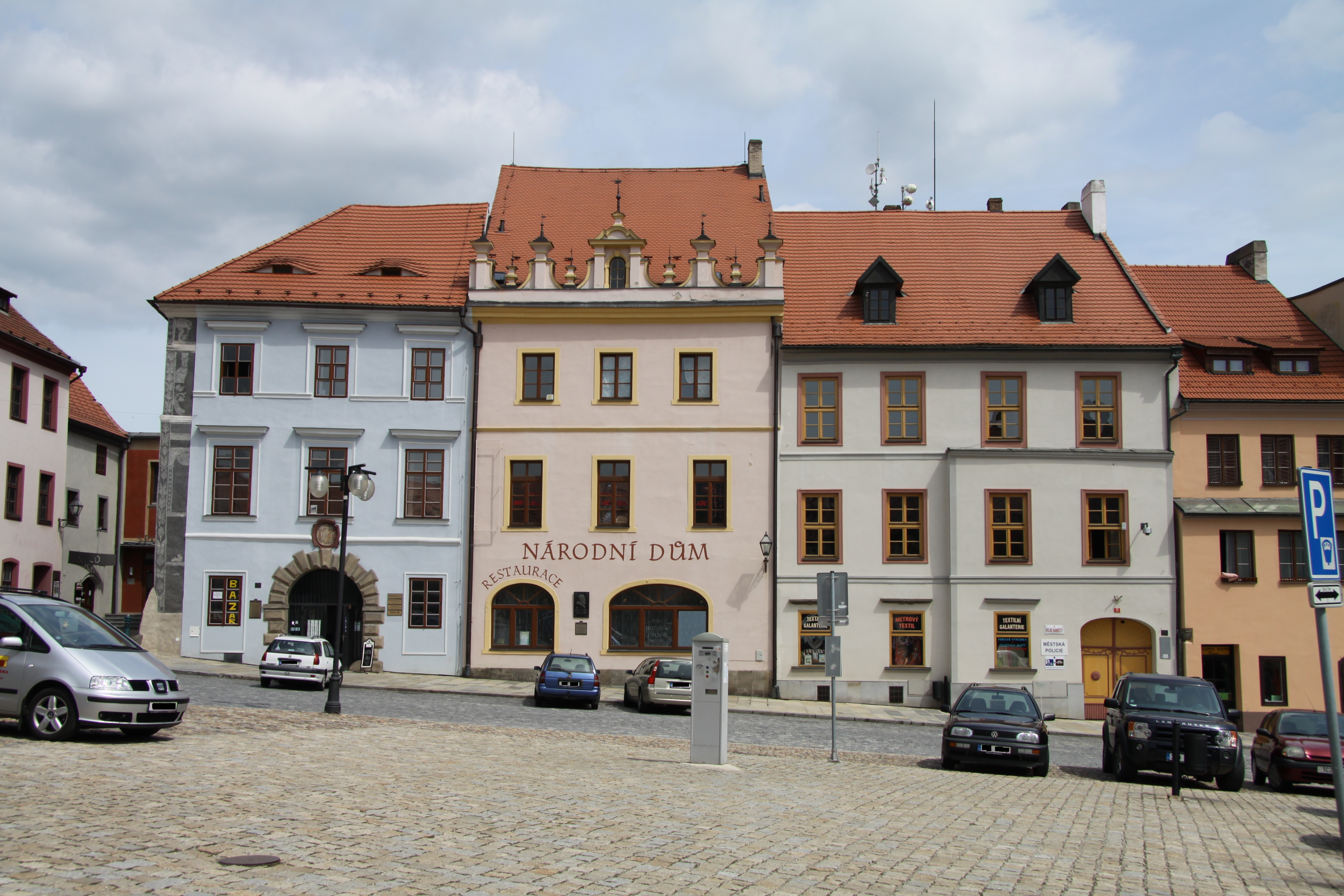 Main square in Prachatice, Prachatice District, Czech Republic